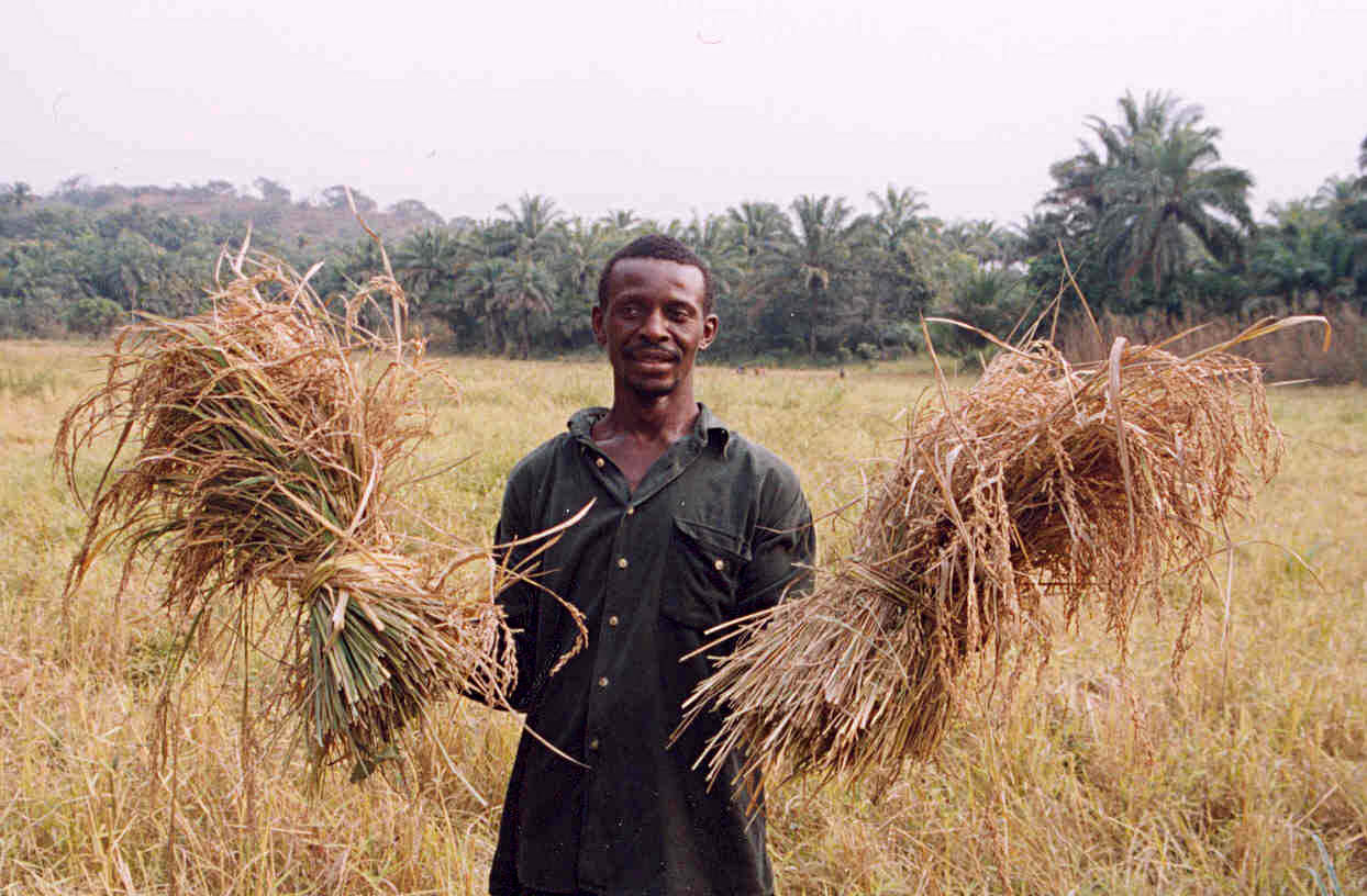 rice farmer in Sierra Leone showing a part of his harvest